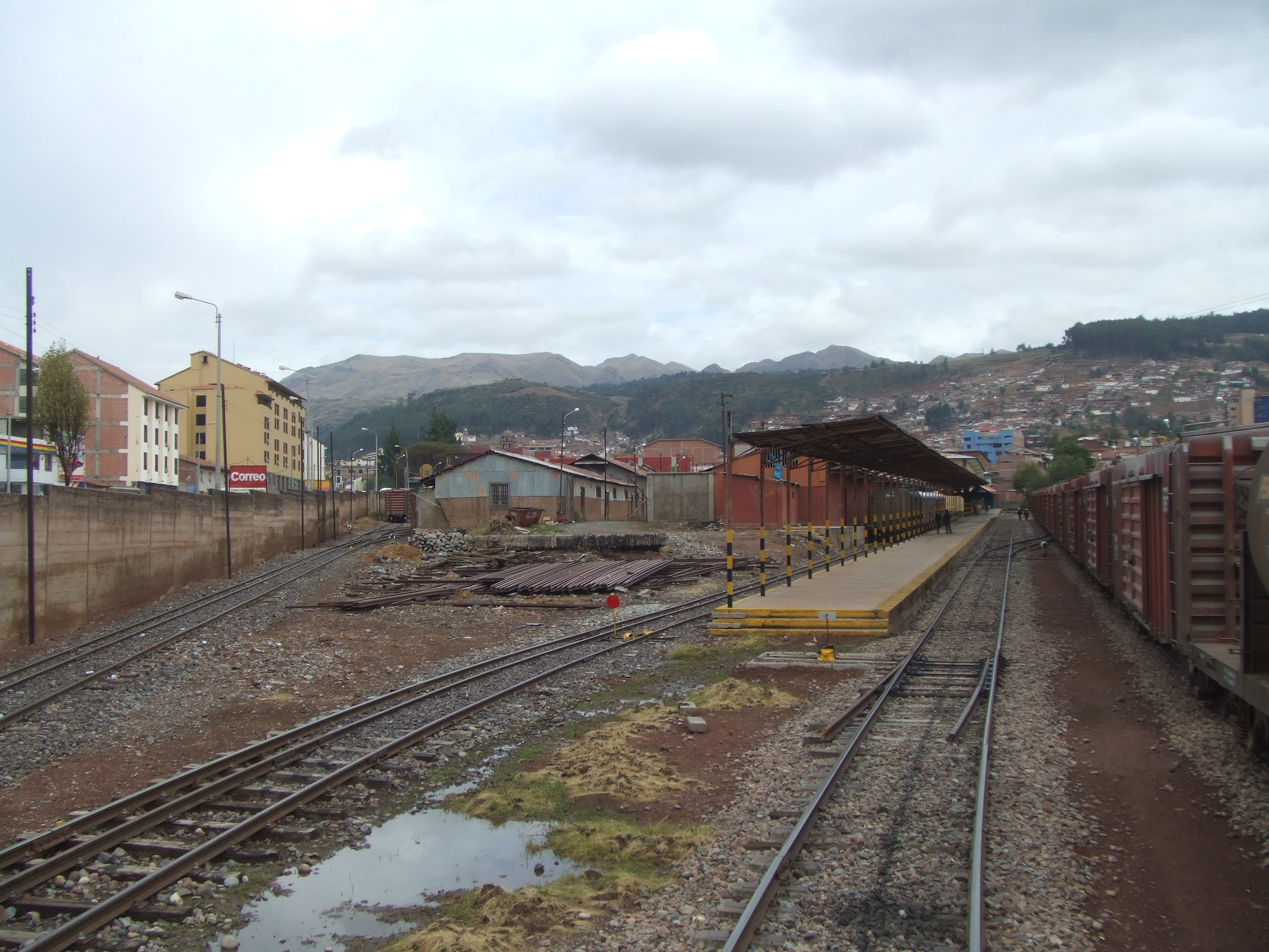 Cuzco (San Pedro) Station showing both standard gauge and 3' gauge tracks, 10/07.